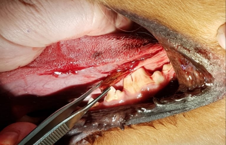 injury by a wooden stick in a dog